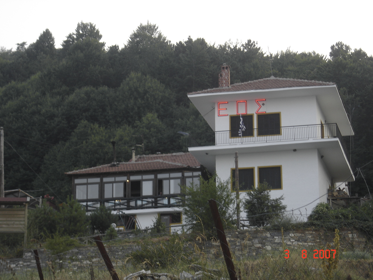 The Mountaineers Association in Ano Milia.